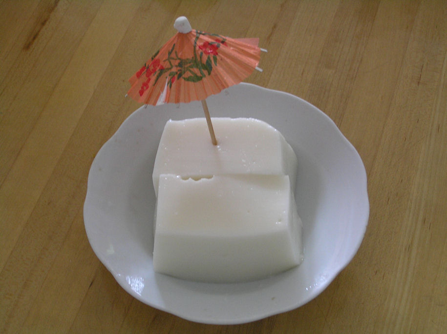 Coconut Bar Hong Kong cuisine